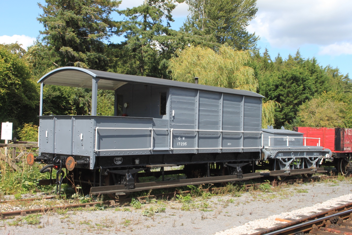 Great Western Railway diagram AA20 'Toad' brake van and diagram M1 shunter's truck in the siding at Staverton station on the South Devon Railway.